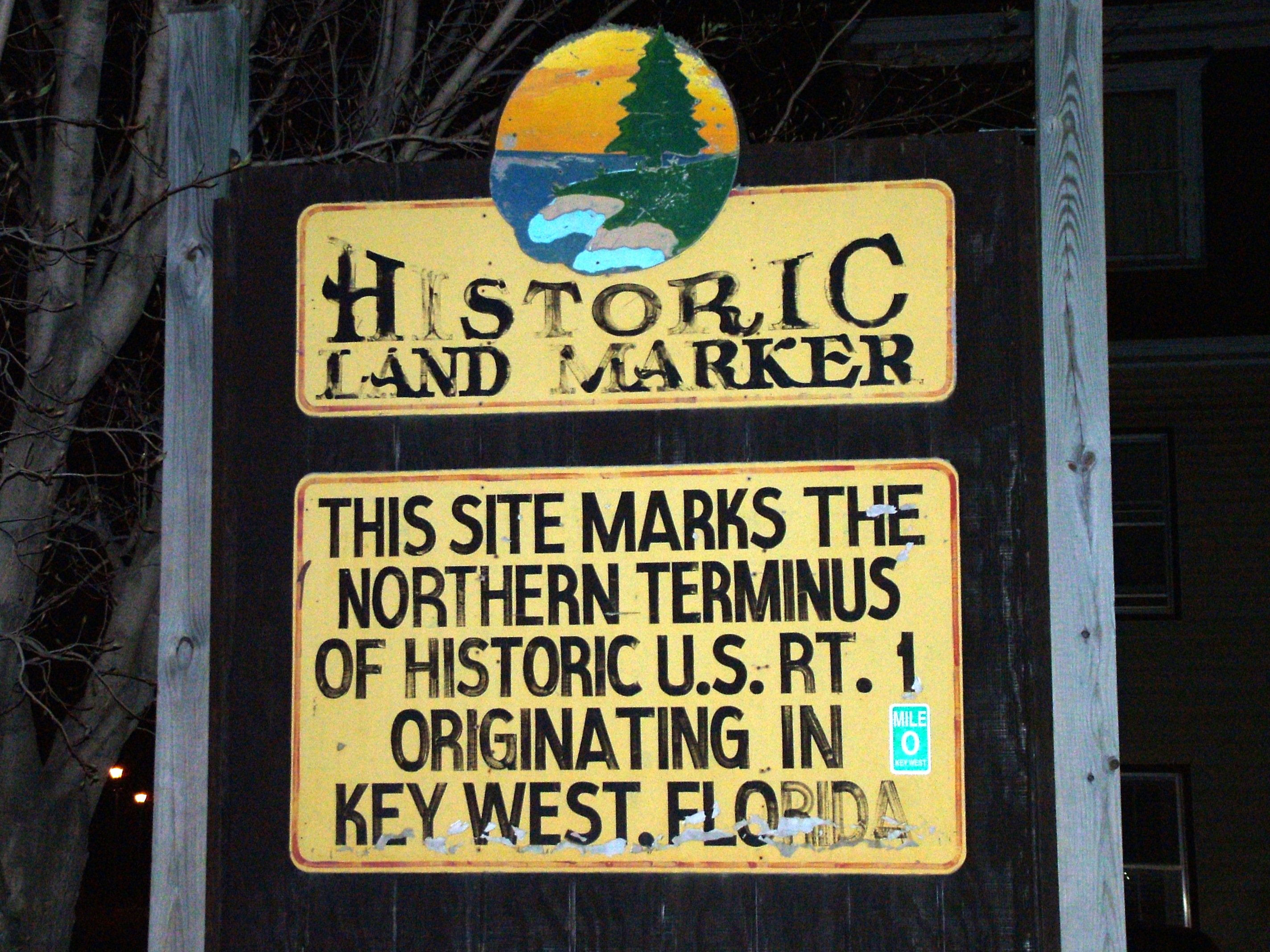 Photo of the northern terminus of US Route 1 in Fort Kent, Maine